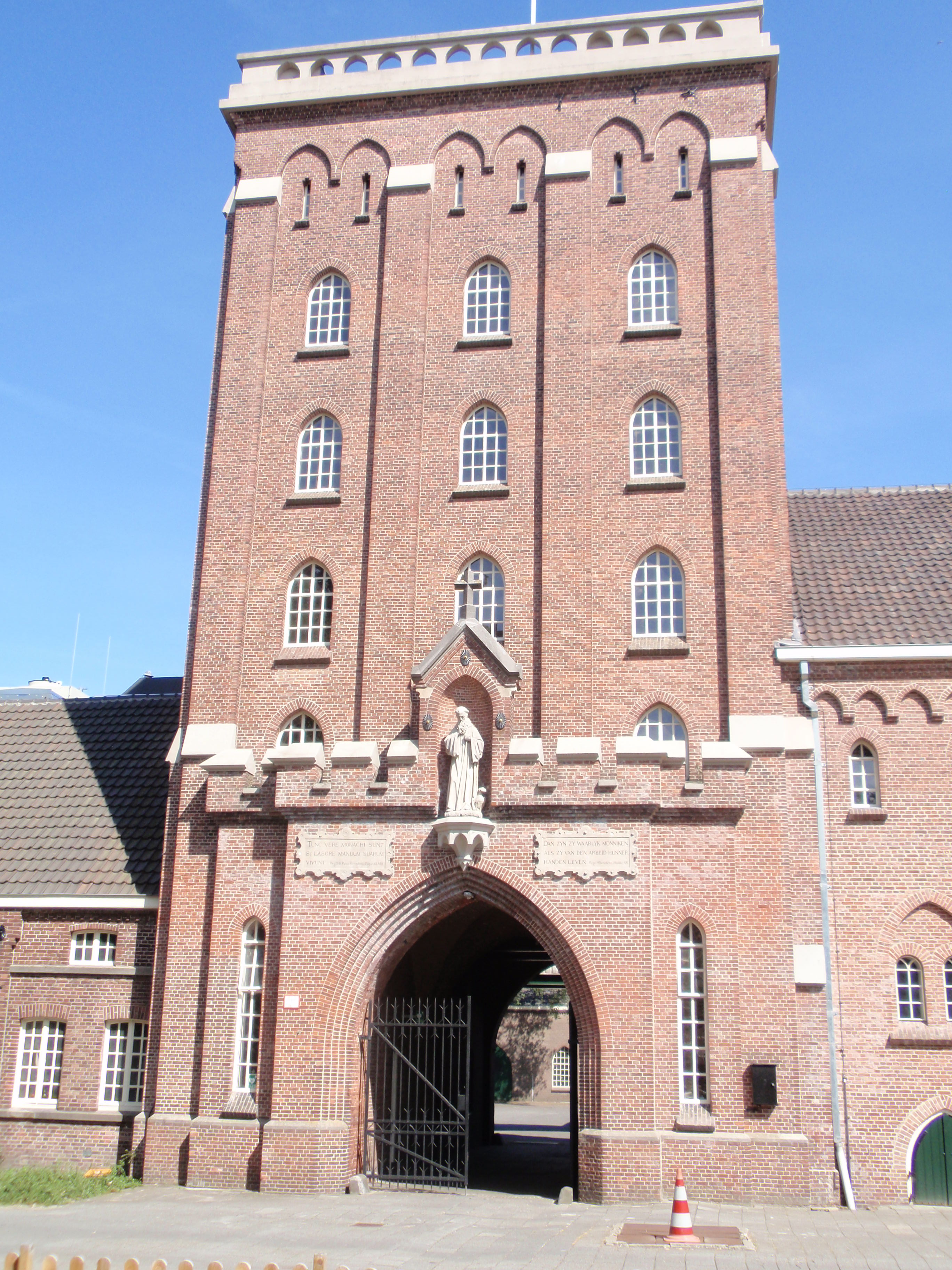 Entrance brewery Trappist monastery Berkel-Enschot, the Netherlands